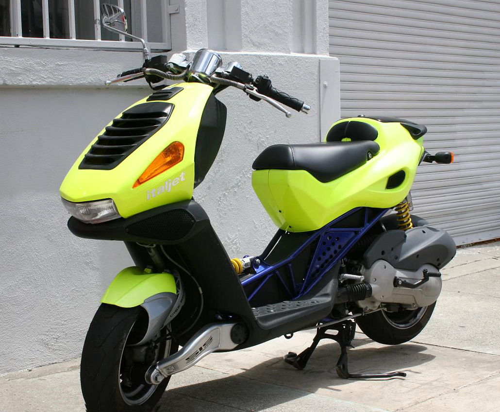 San Diego Dave's Italjet Dragster 180 (nice day-glow yellow)